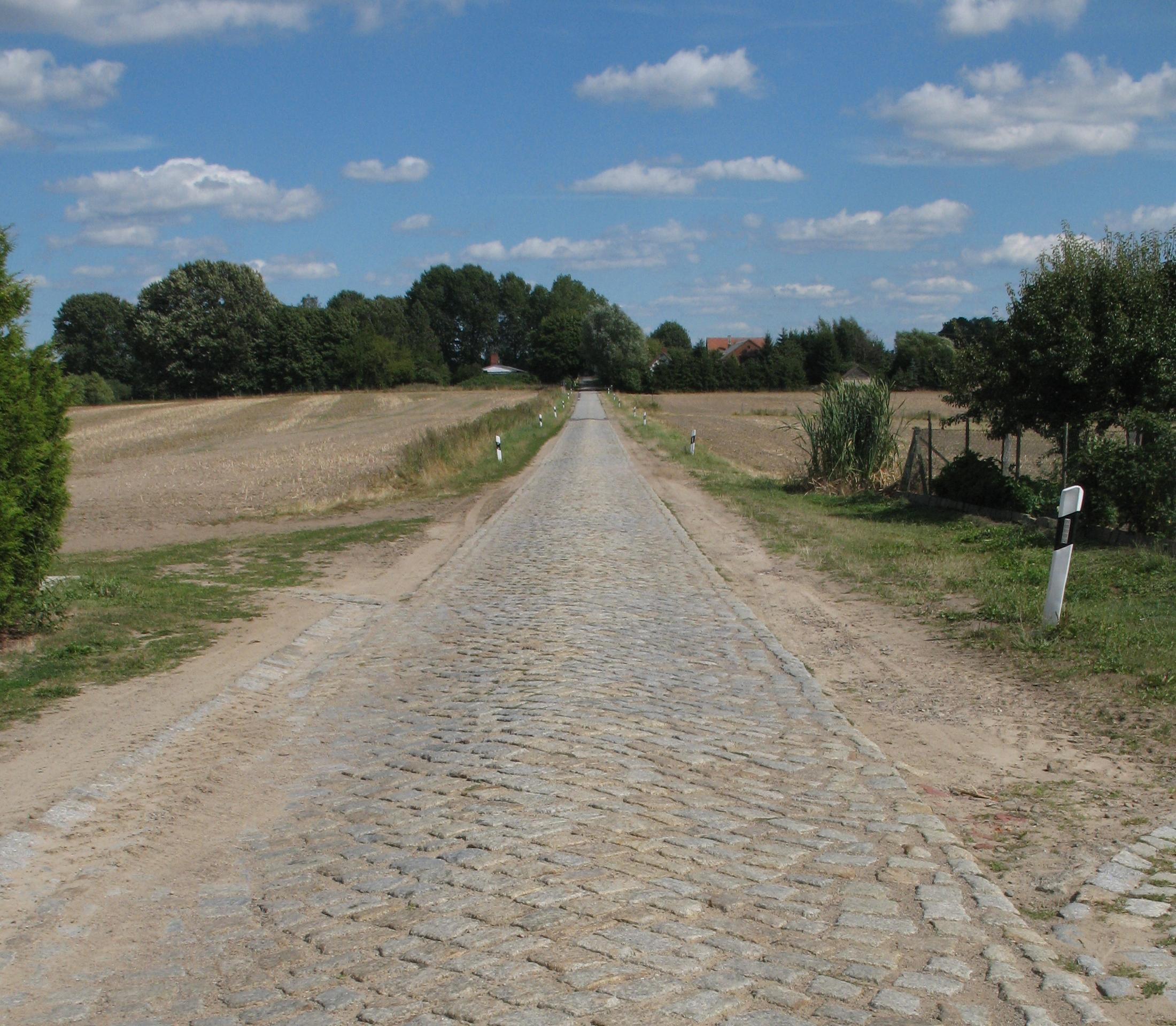 Cobblestone near Mestlin-Ruest in Mecklenburg-Western Pomerania, Germany